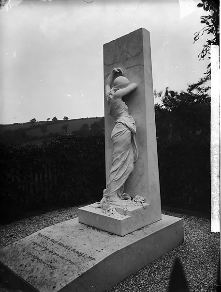 1 negative : glass, dry plate, b&w ; 21.5 x 16.5 cm.